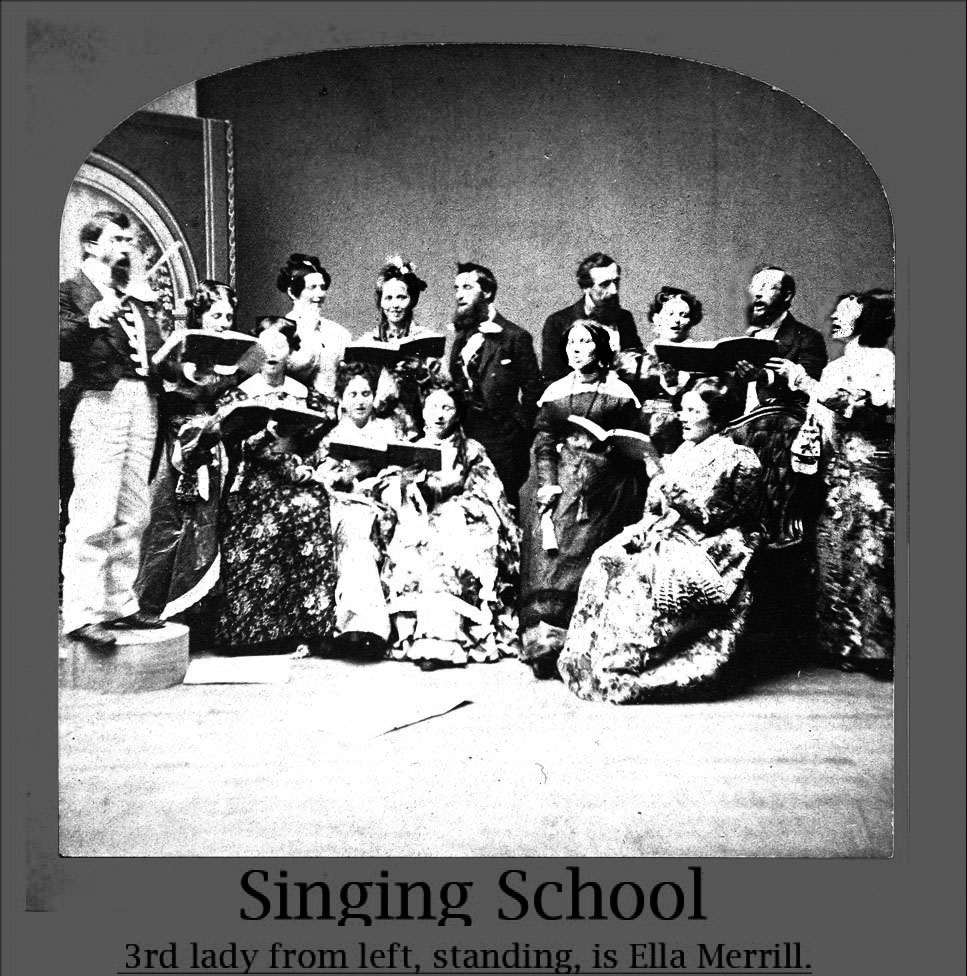 TITLE Merrill, Ella and Singing School of Keene New Hampshire CREATOR French, J.A., Keene NH SUBJECT People - NH - Keene Singing - NH - Keene DESCRIPTION Stereograph of a singing school in Keene NH. The third woman from the left, standing, is Ella Merrill. PUBLISHER Keene Public Library and the Historical Society of Cheshire County DATE DIGITAL 20090626 DATE ORIGINAL 186?-188? RESOURCE TYPE stereographs FORMAT image/jpg RESOURCE IDENTIFIER HS113 RIGHTS MANAGMENT No known copyright restrictions.